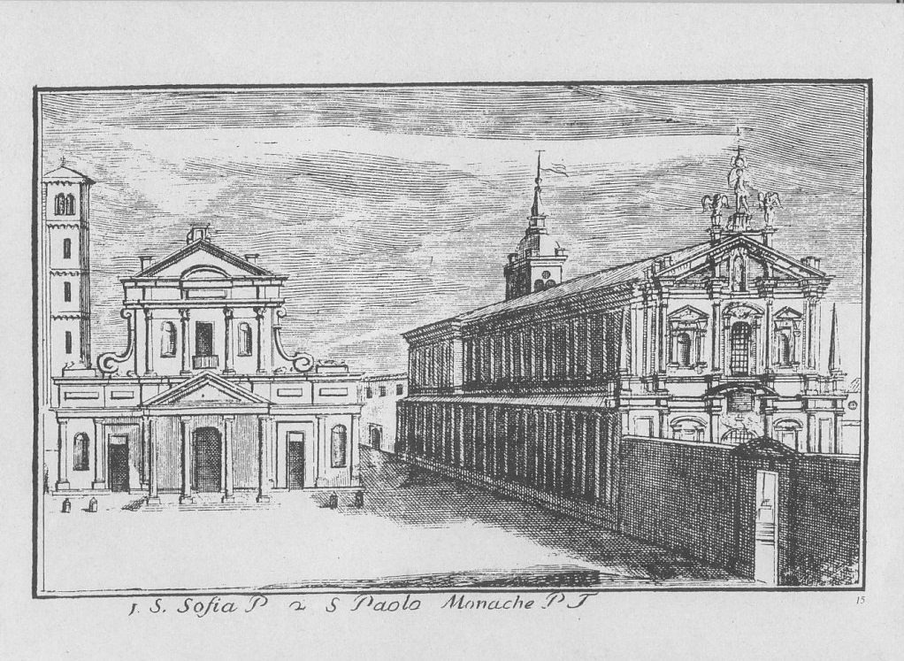 Marc'Antonio Dal Re (1697-1766), The churches of Sant'Eufemia (the engrawing gives, wrongly, the name of "S. Sofia") and San Paolo Converso in Milan. This engraving is # 15 from a set of 88 Vedute di Milano ("Views of Milan") published by Del Re around 1745.